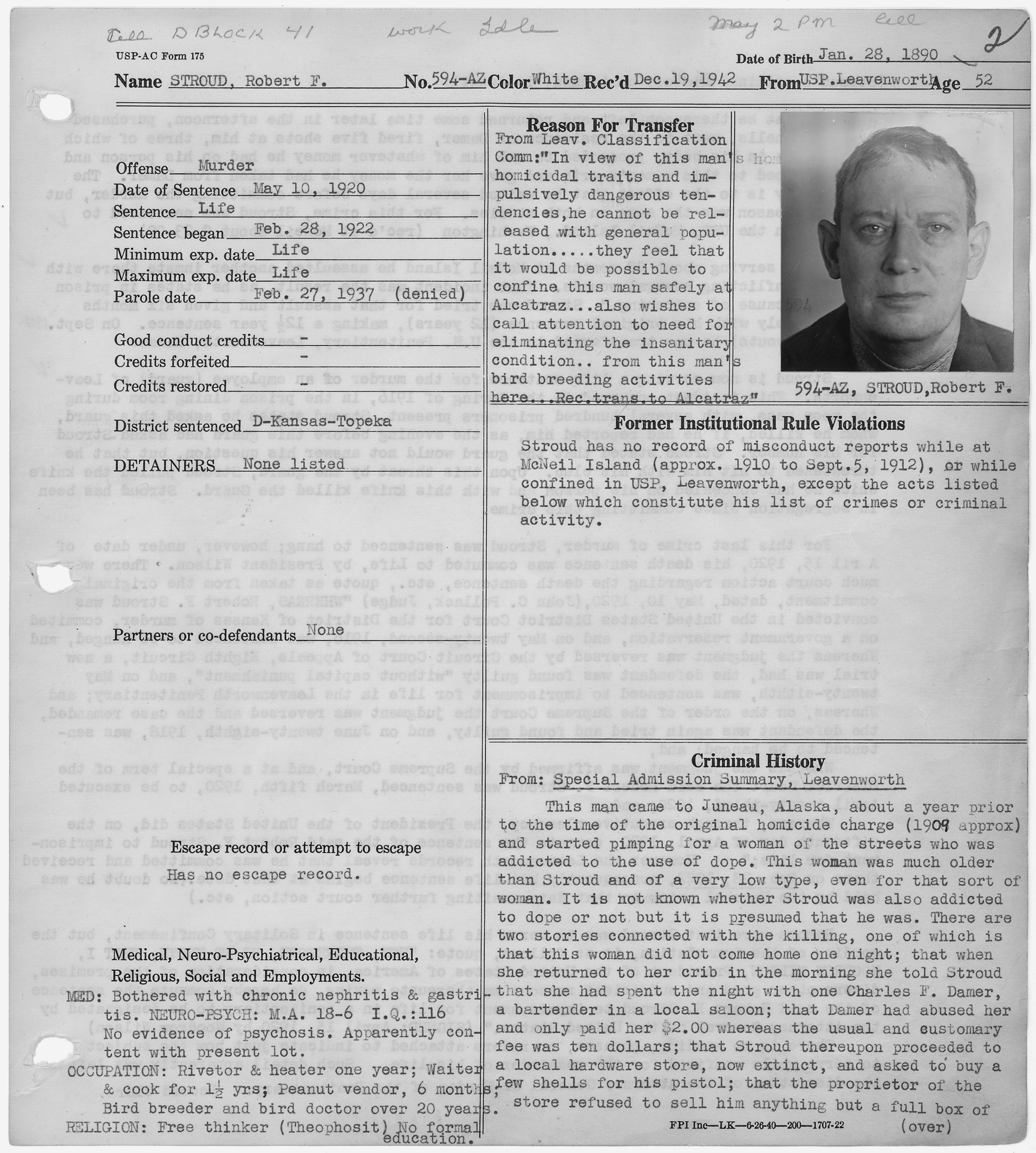 Title: Warden's notebook page, with "mug shot," of Robert Stroud, 594-AZ, aka "The Birdman of Alcatraz." Production Date: January 19, 1917 Warden's notebook page, with "mug shot," of Robert Stroud, 594-AZ, aka "The Birdman of Alcatraz.", 1942 - 1942 ?; Warden's Notebook Pages, 1934 – 1963 From: Records of the Bureau of Prisons, 1870 - 1981; Record Group 129; National Archives. Persistent URL: This is a page from the Alcatraz Warden's notebook on Robert Stroud, 594-AZ, aka "the Birdman of Alcatraz," born on January 28, 1890. Find more online records on Alcatraz [/research/arc/topics/prisons/index.html#alcatraz More Online Records from the U.S. Penitentiary on Alcatraz] [/pacific/education/index.html Educational Resources on California History] [/research/prisons.html Research Prisons and Penitentiaries][/research/guide-fed-records/groups/129.html RG 129: Records of the Bureau of Prisons] Access Restrictions: Unrestricted Use Restrictions: Unrestricted